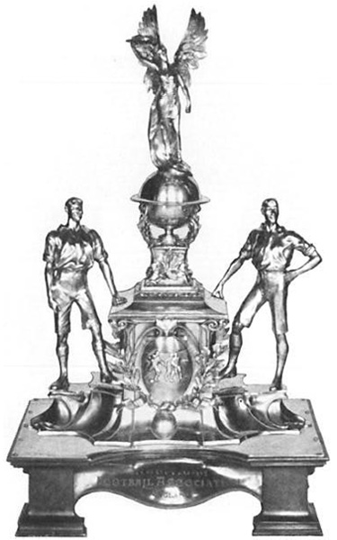 Challenge cup of the olympice association football tournament, first awarded at the 1908 Summer Olympics in London.